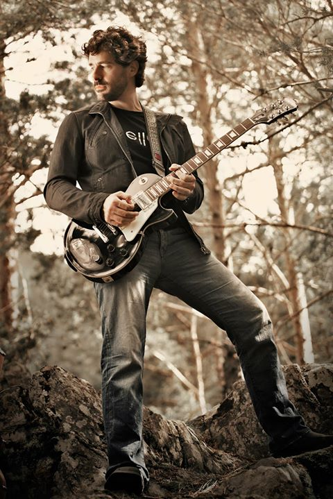 Edu Quindós tocando la guitarra